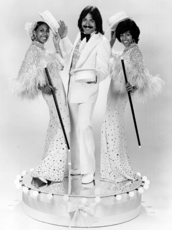 Publicity photo of the musical group Tony Orlando and Dawn from the premiere of their television program. From left: Telma Hopkins, Tony Orlando, Joyce Vincent Wilson.